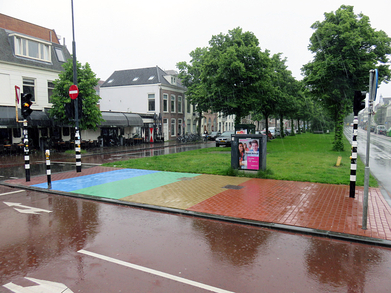 Rainbow pedestrian path at Parklaan in Haarlem, 2016